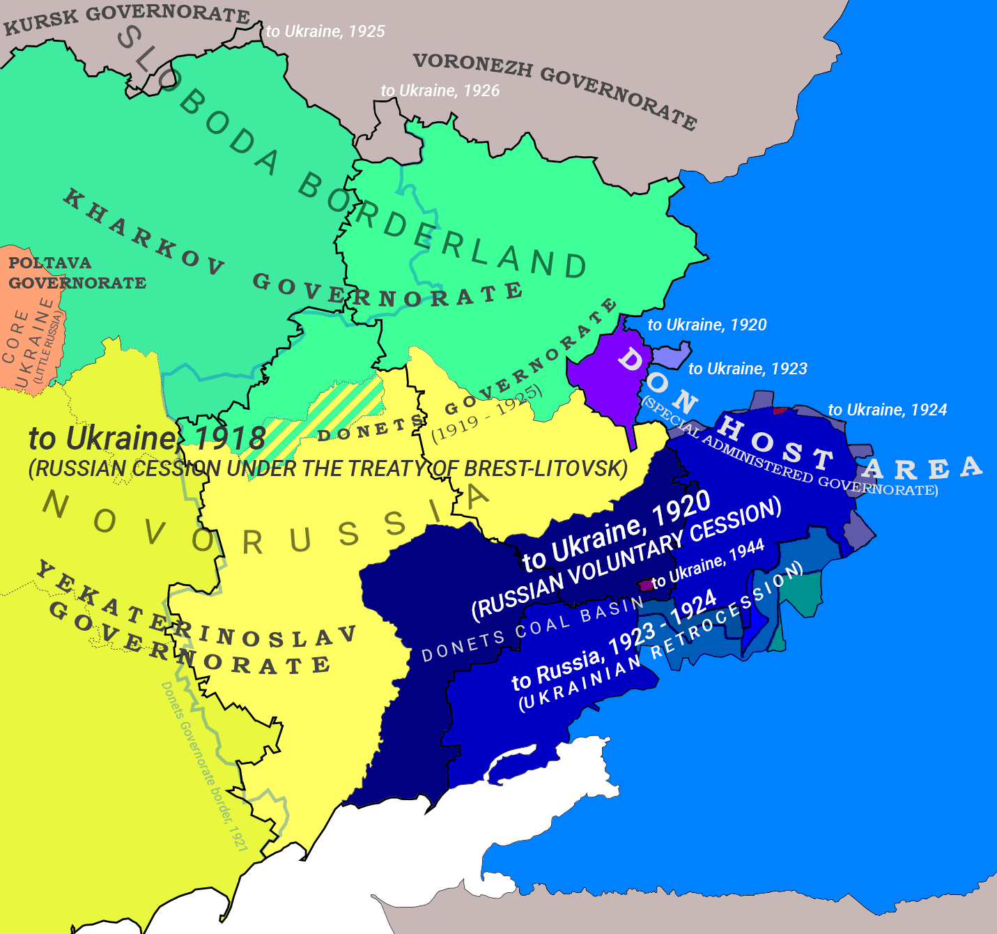 Don Host Area border change after 1919